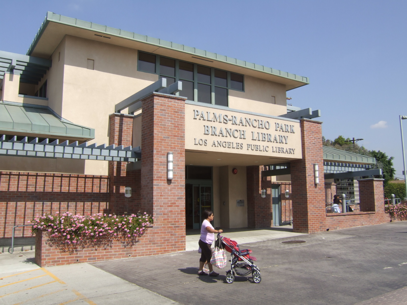 The LAPL Palms—Rancho Park Branch Library in the Westside of Los Angeles, California. A Los Angeles Public Library branch, with a woman walking outside on the driveway and pushing a baby stroller.